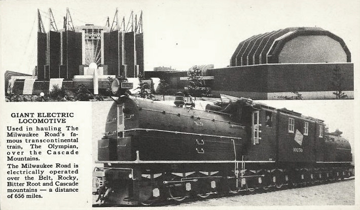 Promotional postcard from the Chicago, Milwaukee and St. Paul railroad featuring one of their large EP-2 electric locomotives the railroad used for a portion of their Olympian route between Chicago and Seattle.